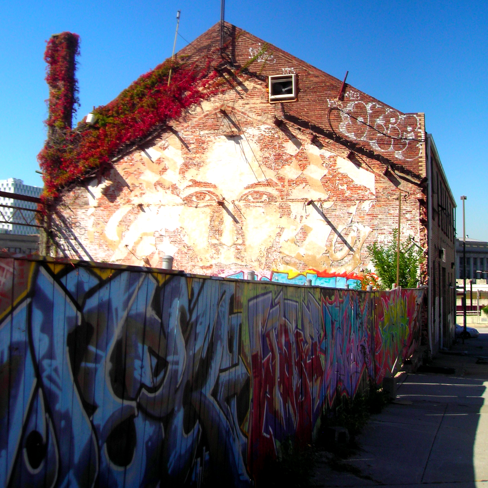 Looking west on East Federal St., Baltimore, we see a decorated wall and building.